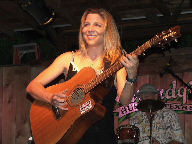 Terri Hendrix at Threadgill's in Austin, TX (2006). Photo by Ron Baker.